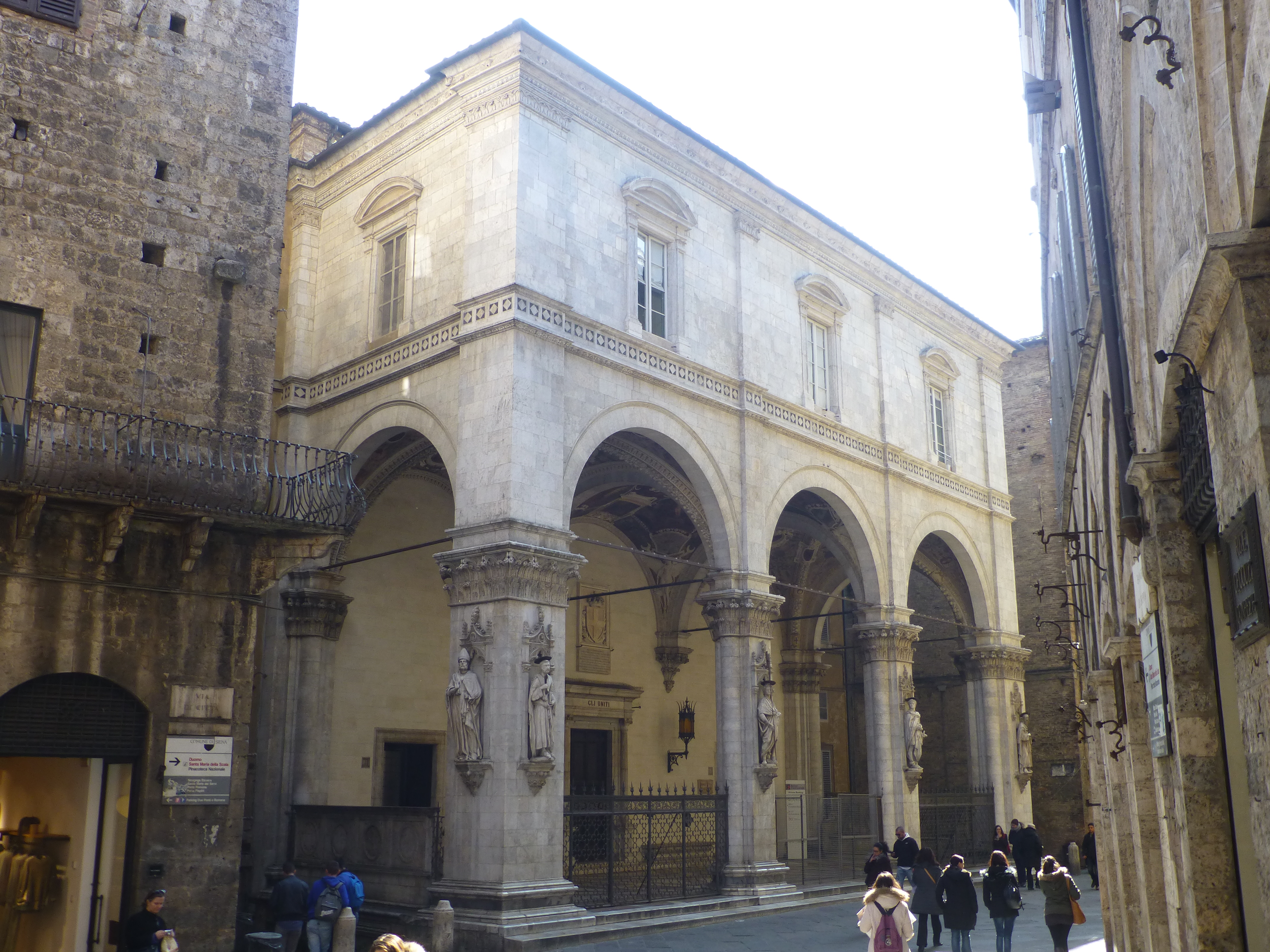 Loggia della Mercanzia, Via di Città, Siena, Italy.